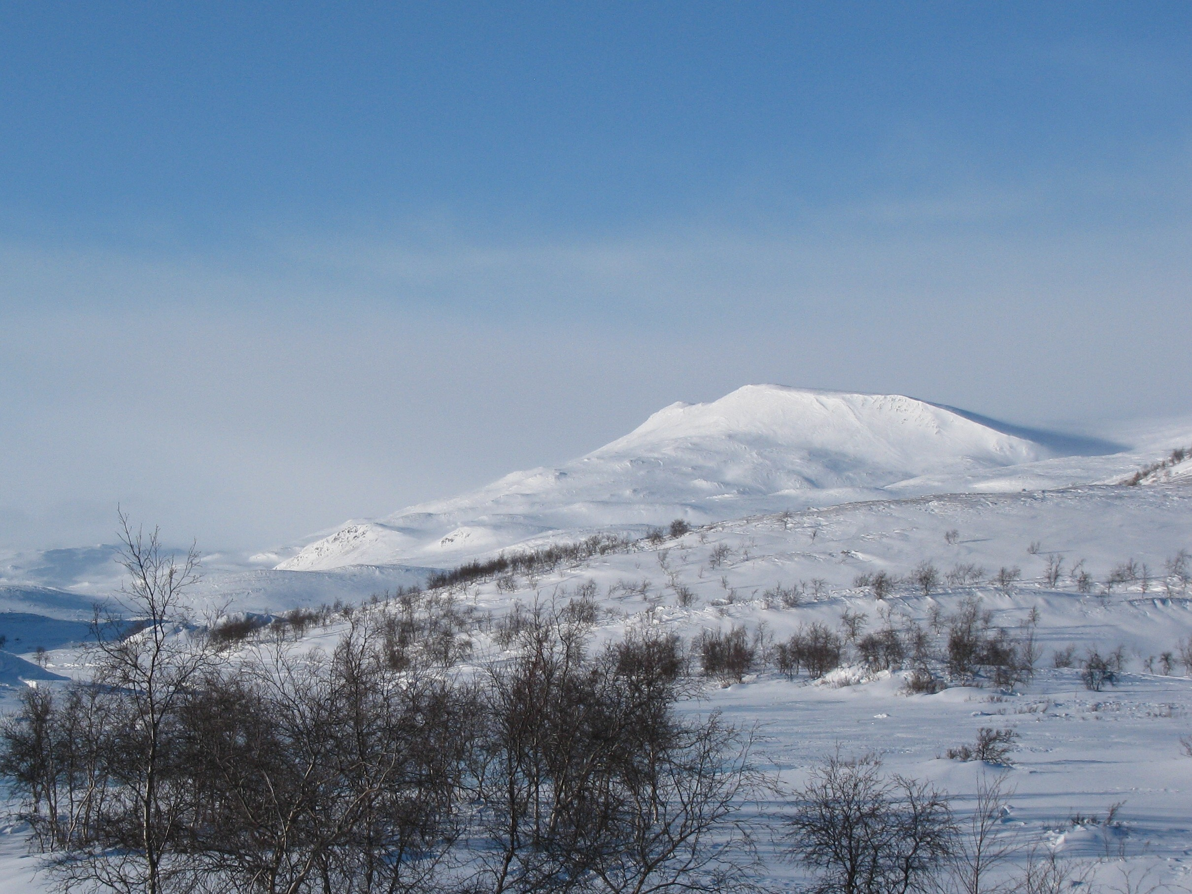 Kovddoskaisi mountain in winter in Enontekiö, Finland